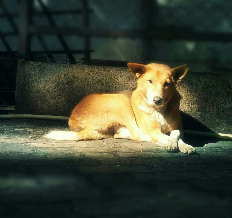 The Ancient Indian Pariah Dog or Indian Pie Dog or INDog or the Desi Dog